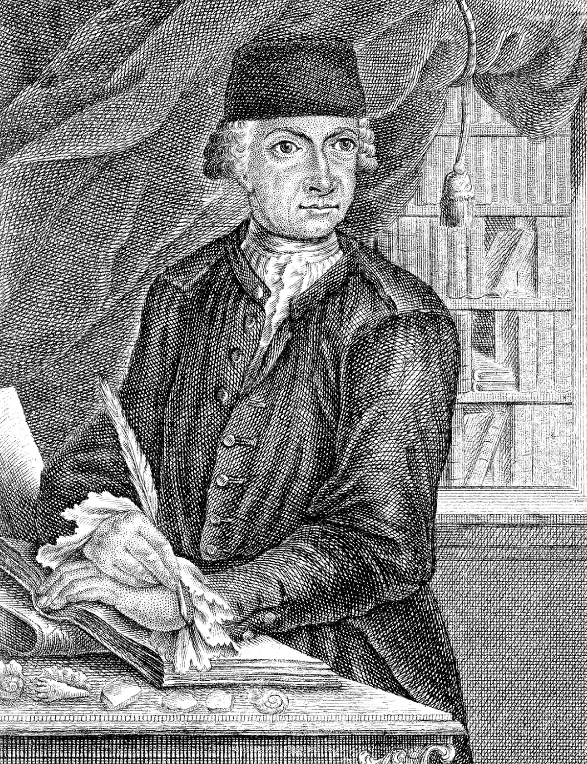 This image shows Johann Gottlob Lehmann in the age of 42.